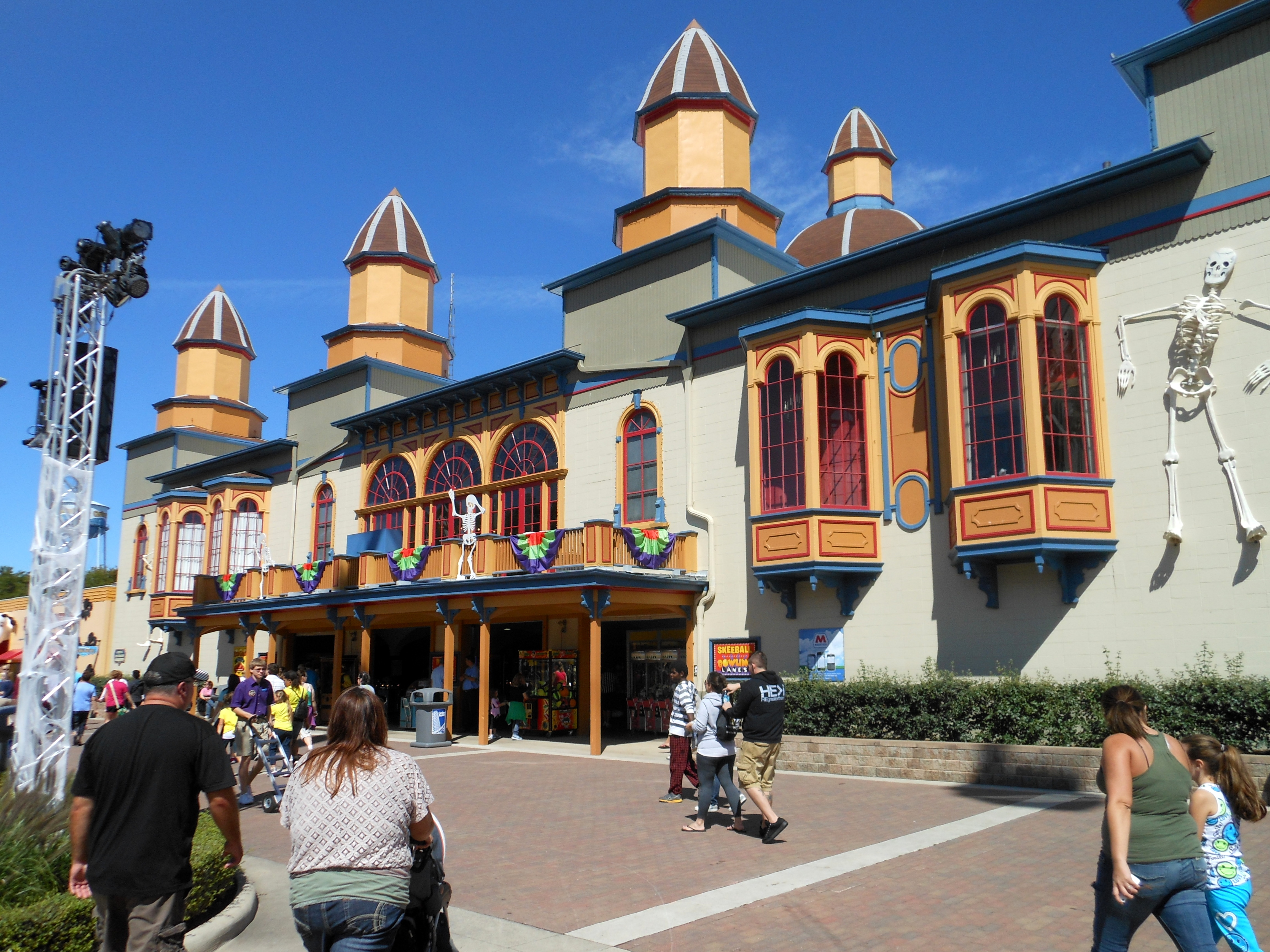 Coliseum